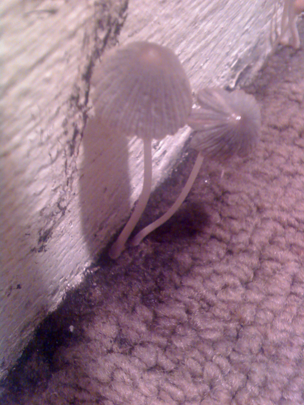 Coprinellus radians, growing from a carpet